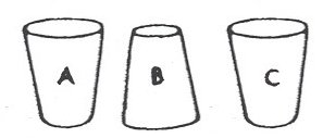 Alternate arrangement of which is unsovlable.